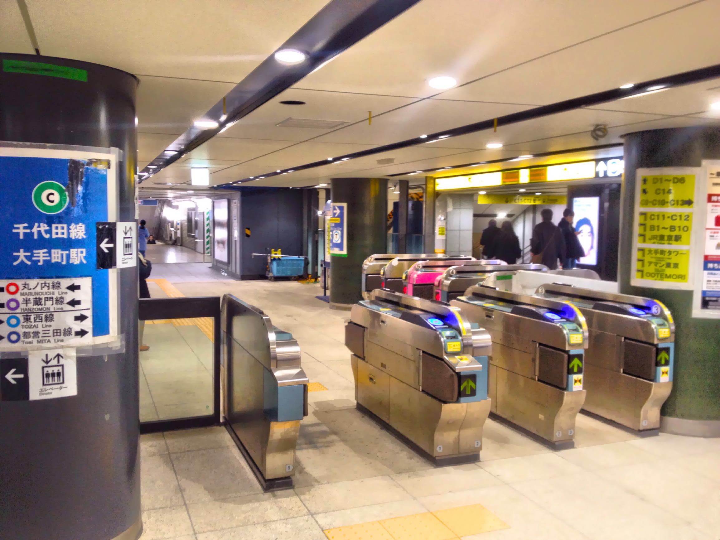 Ōtemachi station ticket gates